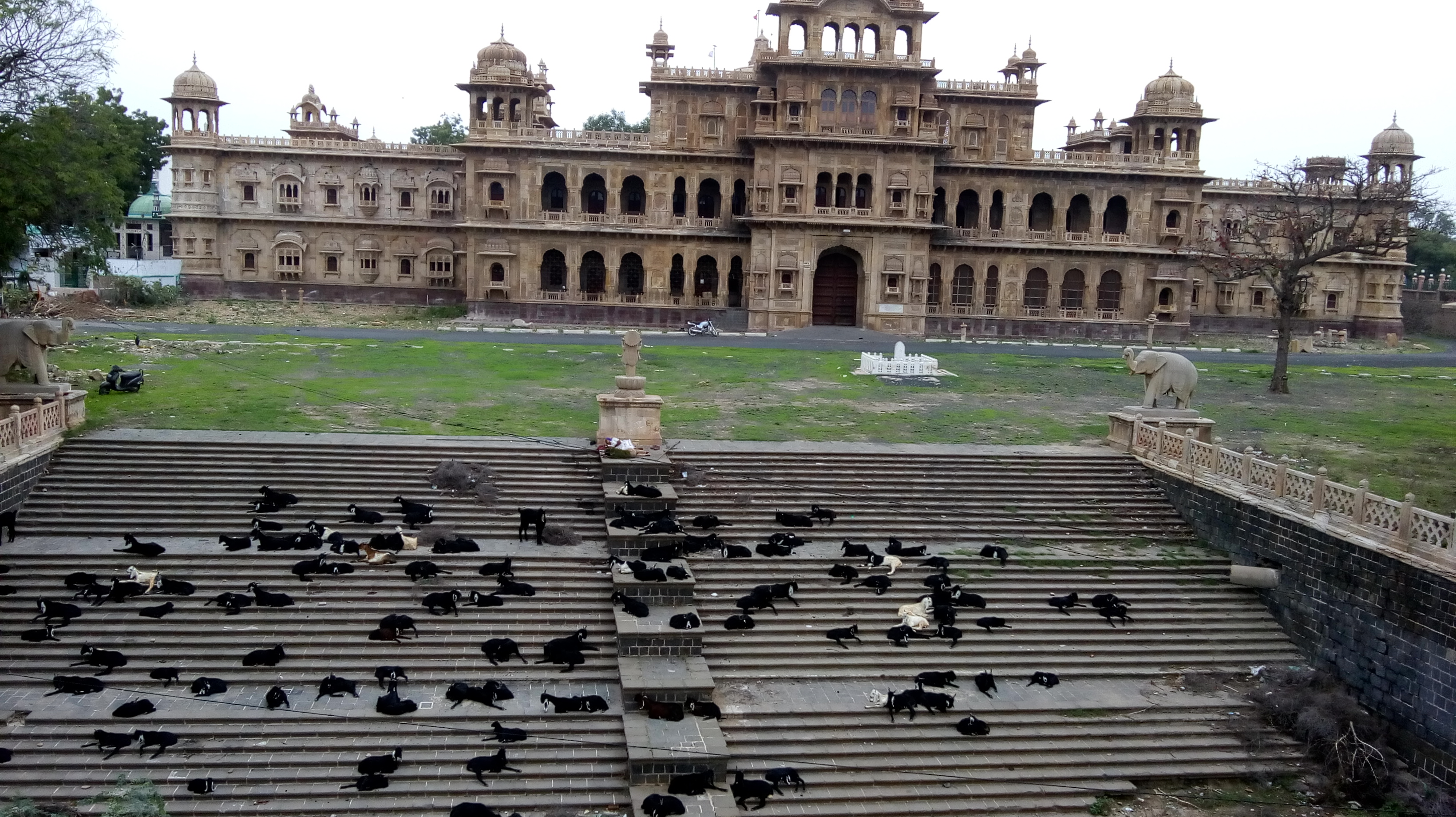 A beautiful heritage name "MANI MANDIR" in Morbi,Gujarat